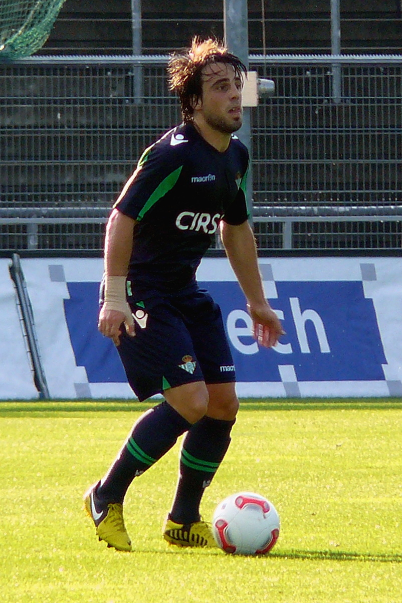 Beñat Etxebarria, Spanish footballer